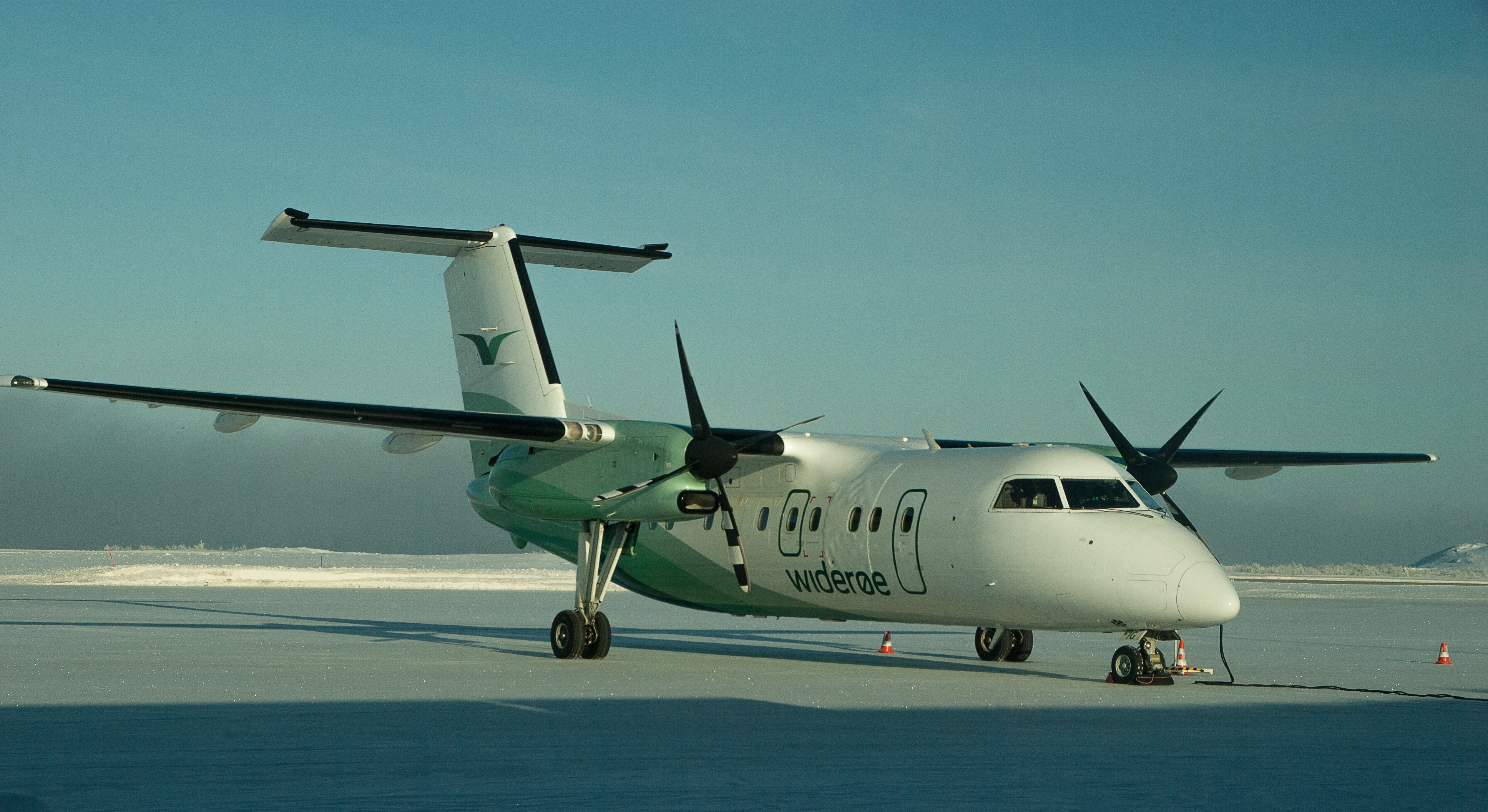 Widerøe in KKN (Kirkenes Airport)